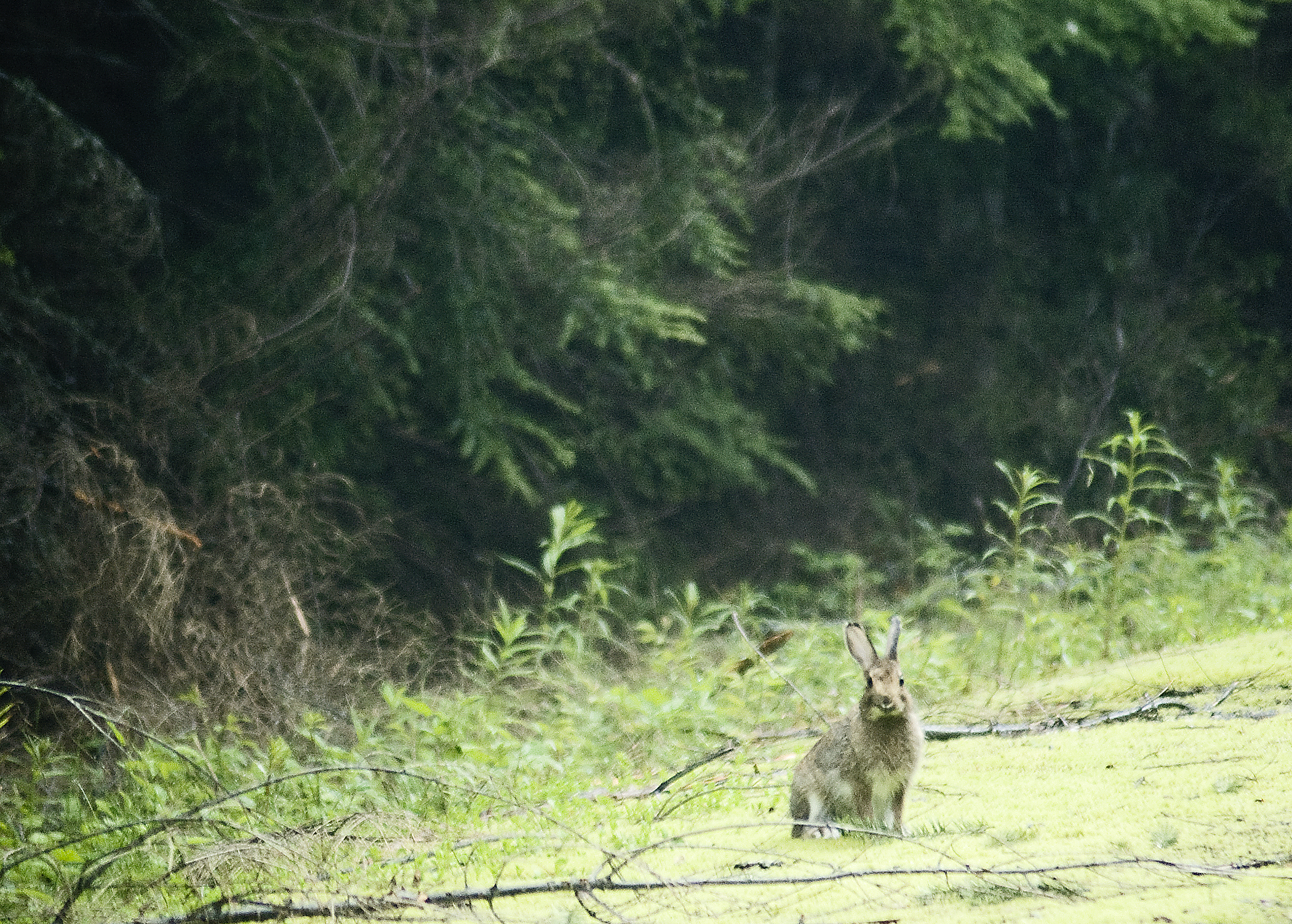 A snowshoe hare on the Bull Run watershed in the Mt. Hood National Forest in June of 2010.